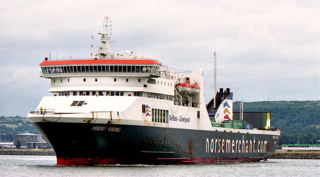 The “Mersey Viking” arriving at Belfast from Liverpool. Now renamed the “Stena Feronia”.